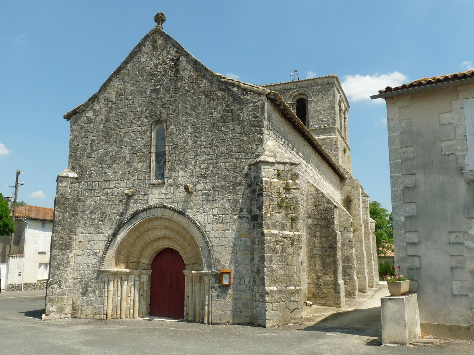 church of Marsac (16), France